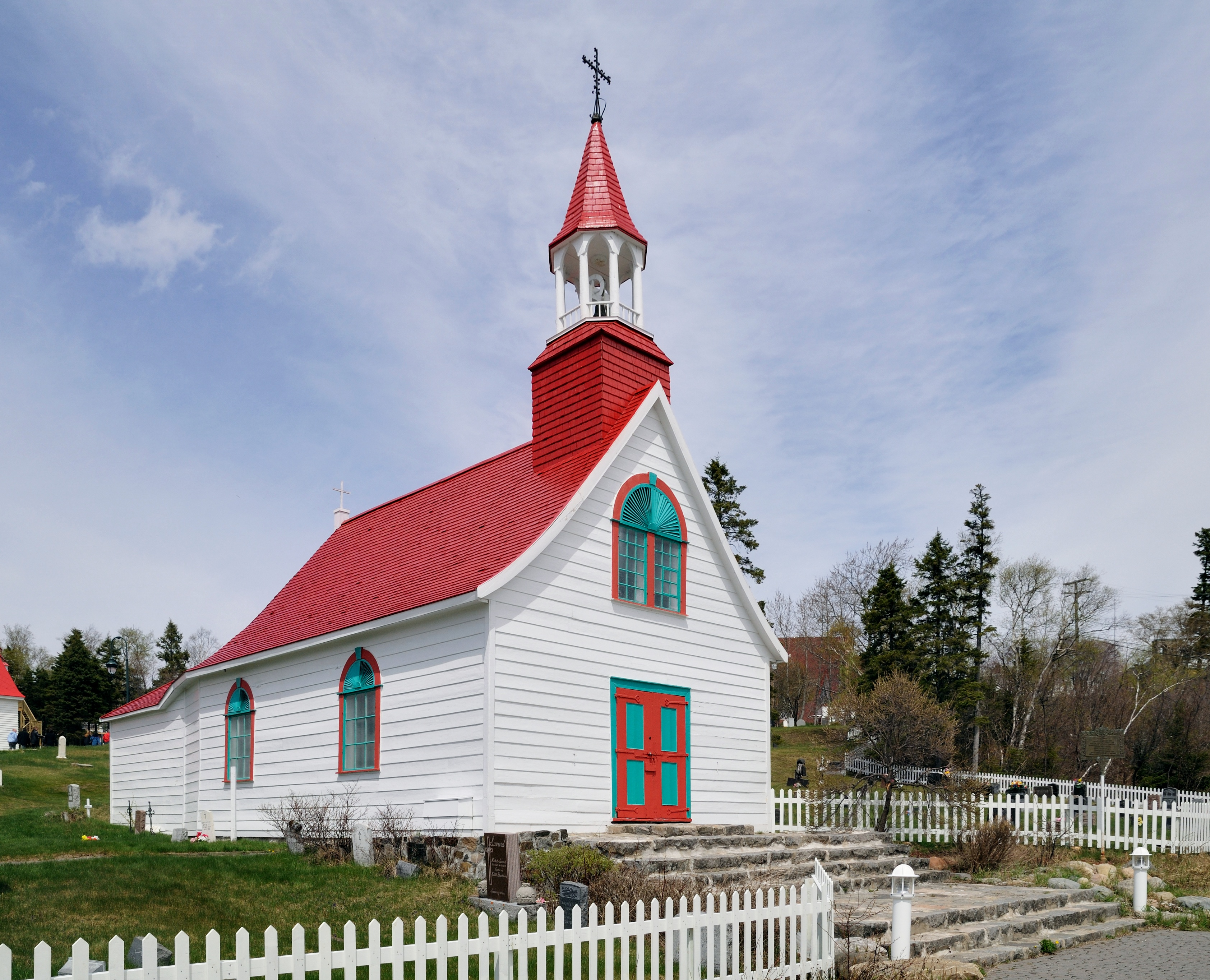 Tadoussac: Old chapel, build 1747-1750 (the oldest wooden church in North-America).